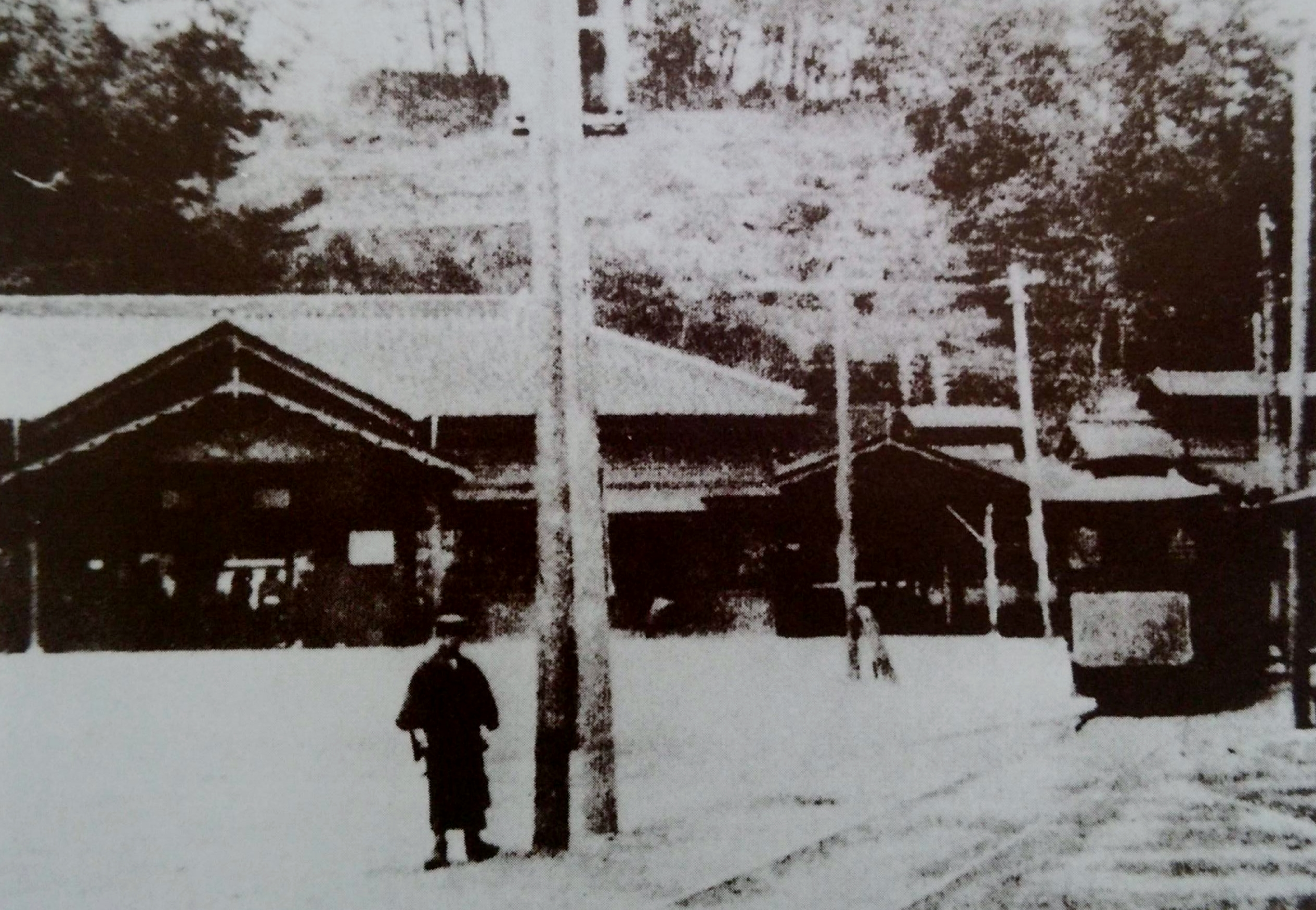 Kozu Station in Kanagawa Prefecture, Japan